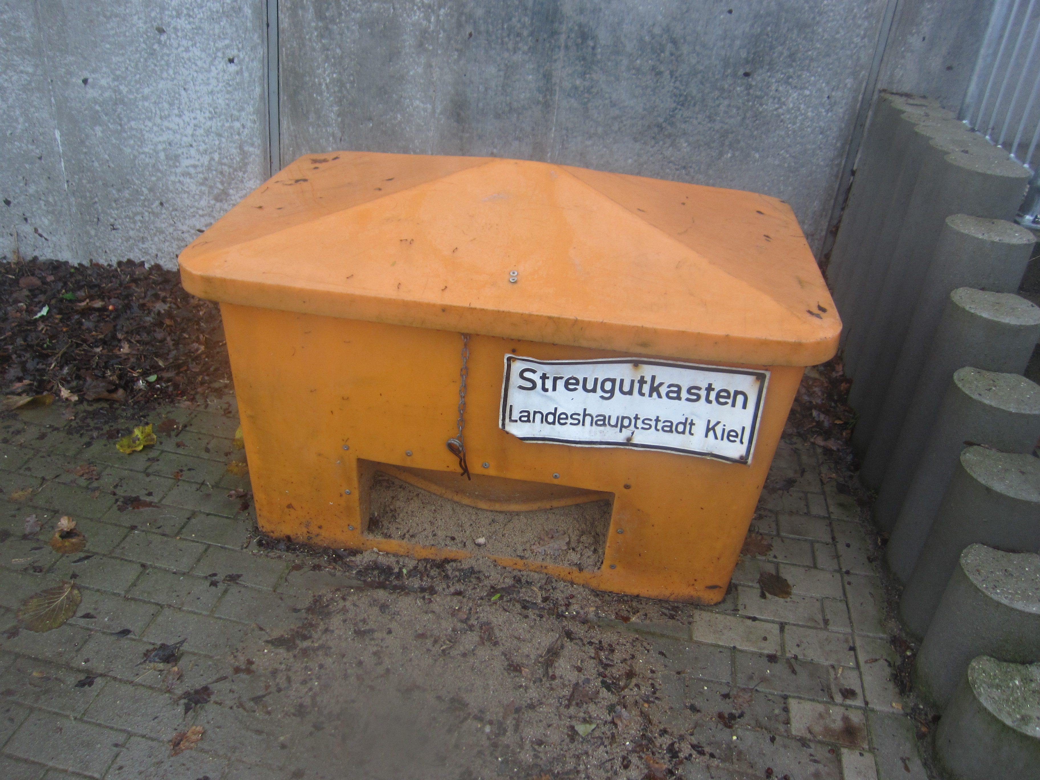 Grit bin in Kiel-Wik